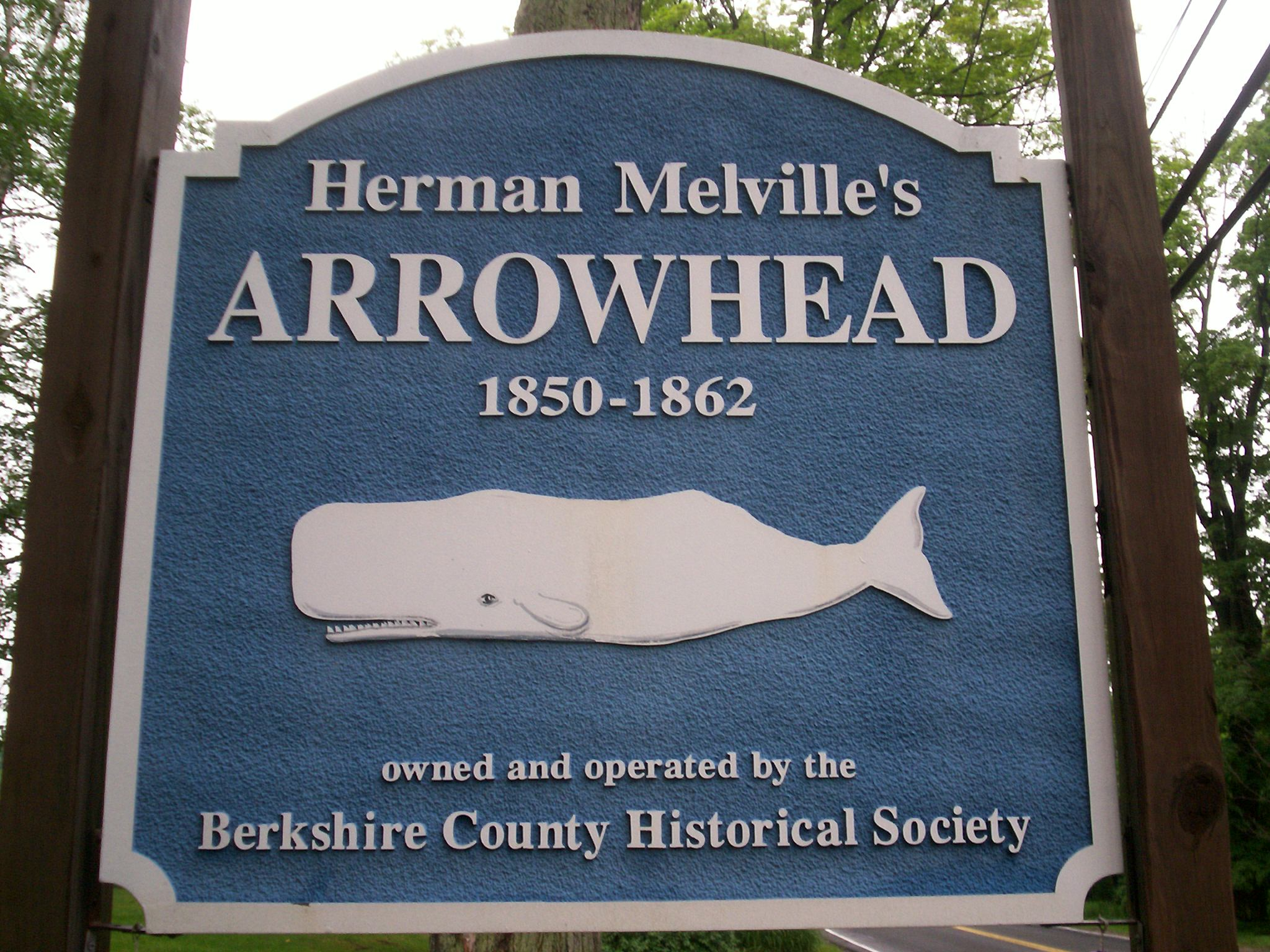 Sign at Arrowhead, former home of Herman Melville in Pittsfield, Massachusetts.